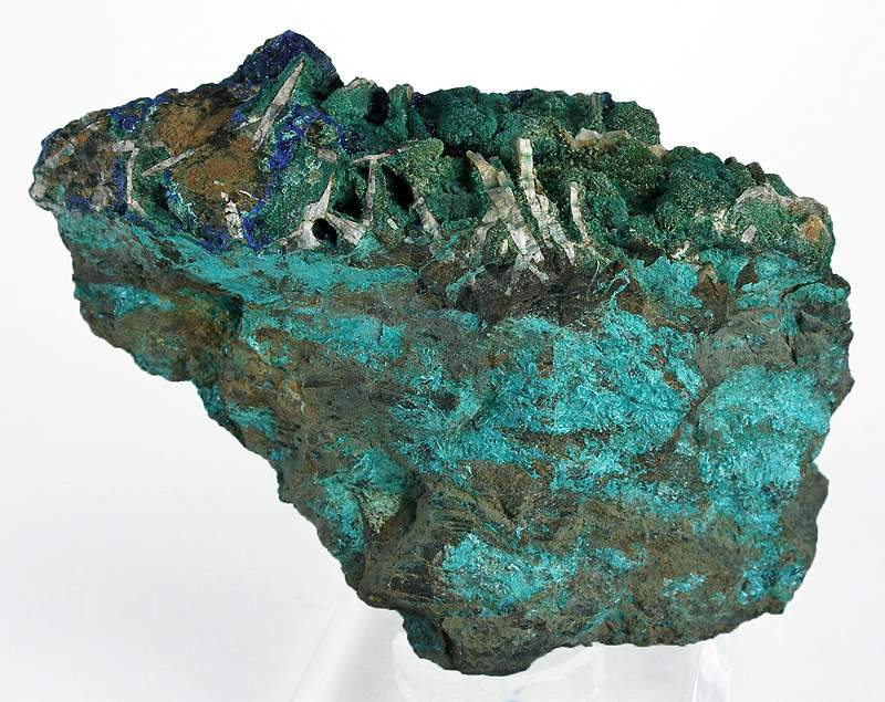 Jarosite, Natrojarosite Locality: Centennial Eureka Mine (Blue Rock), Tintic District, East Tintic Mts, Juab County, Utah, USA (Locality at ) Size: small cabinet, 9.4 x 6.2 x 2.5 cm Jarosite & Natrojarosite (Utahite) "Utahite" came from only a small find in Utah, and this is a very old specimen from the type locality, featuring minute blue microcrystals on matrix with malachite, barite, and gods know what else - probably a whole schmear of microcrystallized rare copper minerals here! To confuse matters more, the name was discredited and this material was then shown to be jarosite/natrojarosite; and a NEW species named Utahite was then christened afterwards. This old "utahite" was a combination of jarosite or natrojarosite (this is way too old to be the newer species utahite). I don't know what the hell all this copper-rich stuff is, but it is really interesting as a historic specimen and from a great locality, and worth further study to somebody with the resources to pursue analysis.